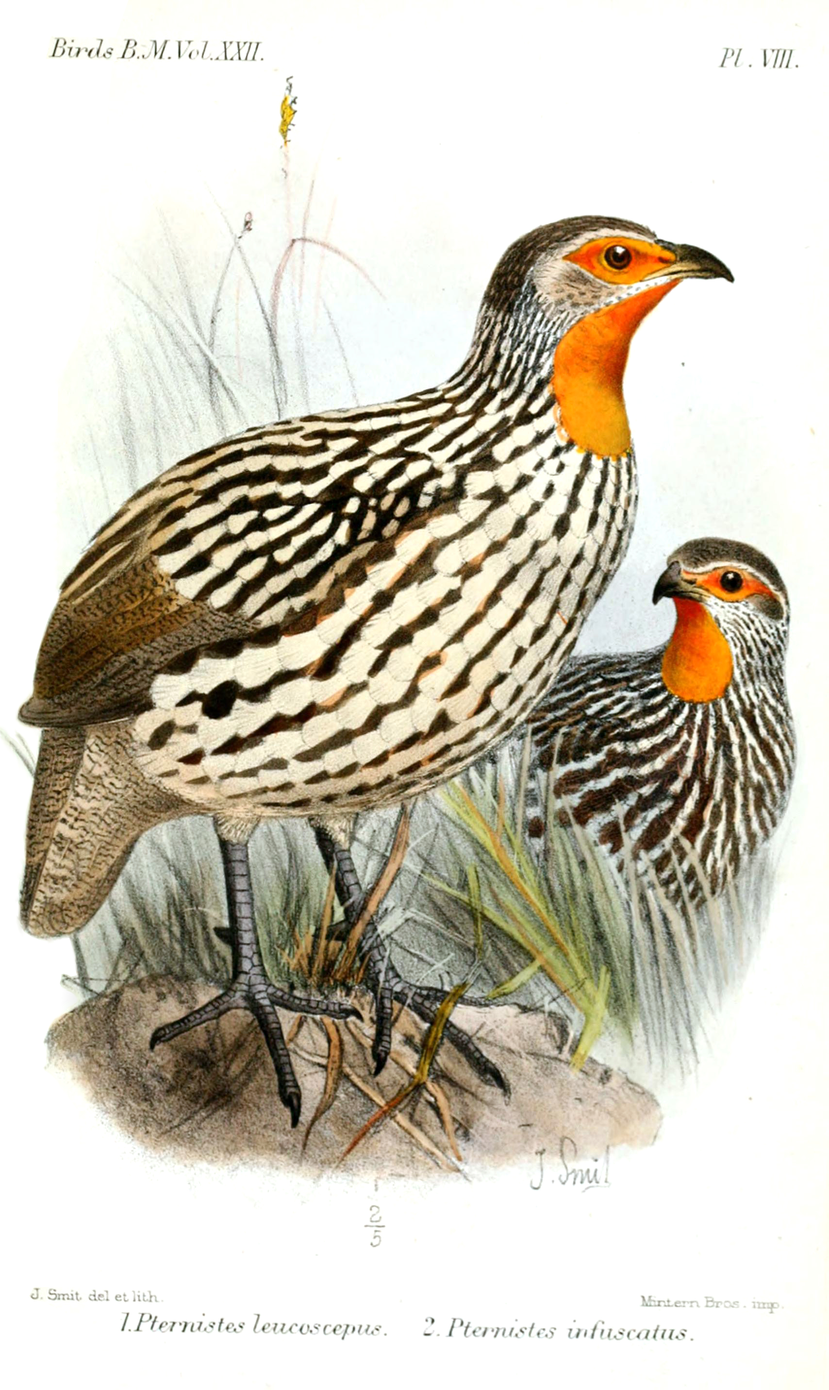 Yellow-necked Francolin